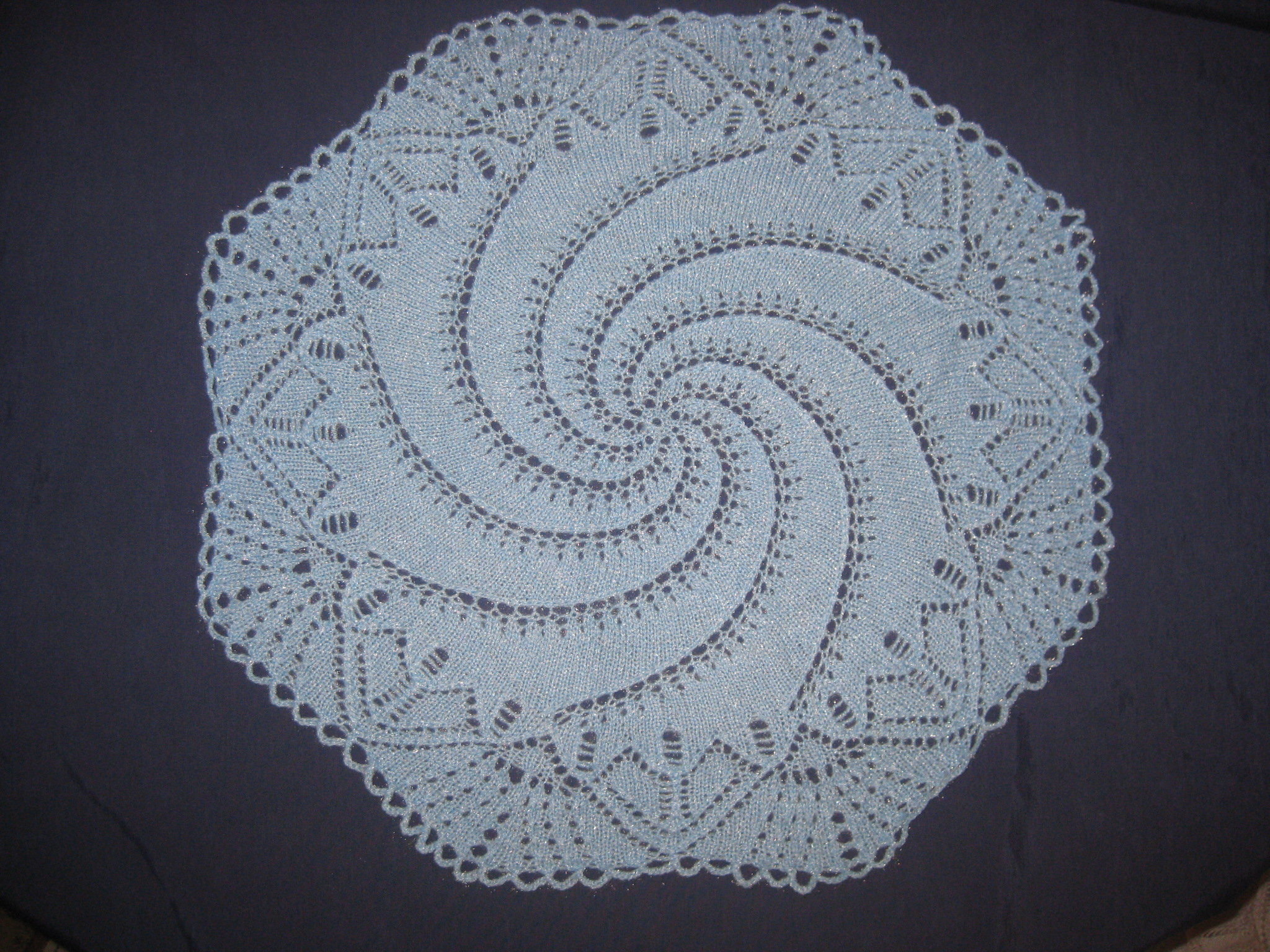 Small doily